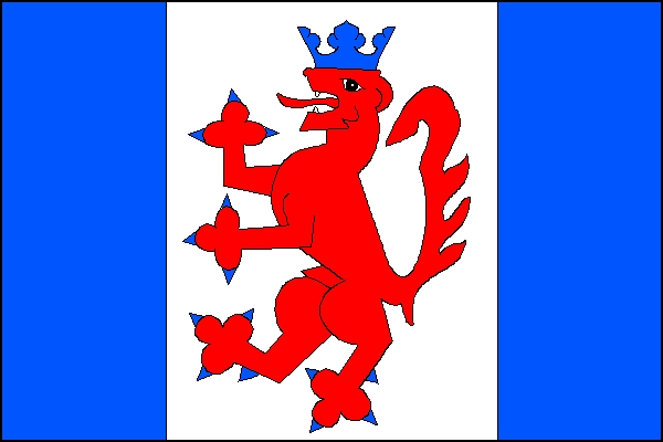 Municipal flag of Rataje village, Kroměříž District, Czech Republic.